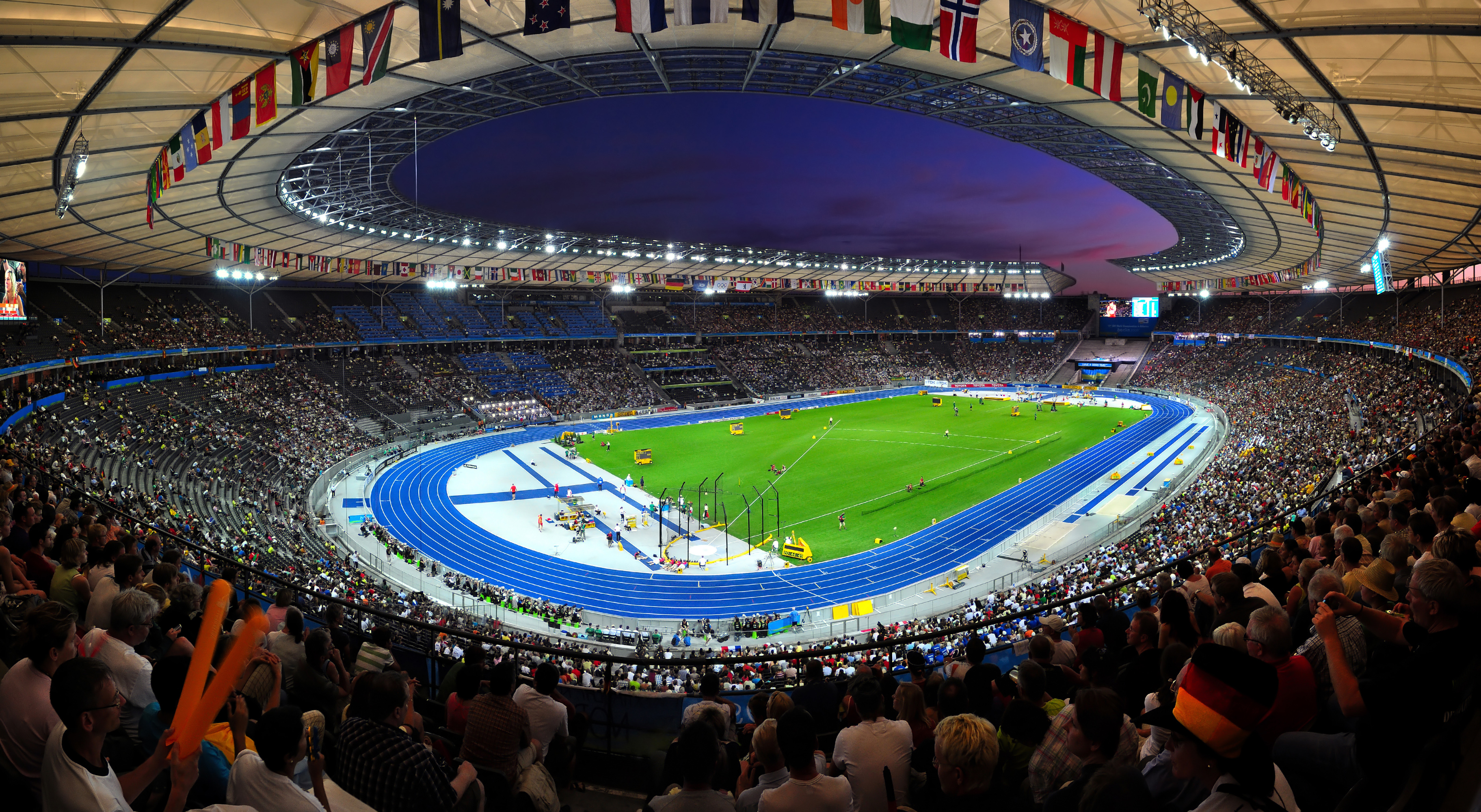 Panoramic view of the olympic stadium of Berlin during the 12th IAAF World Championships in Athletics.